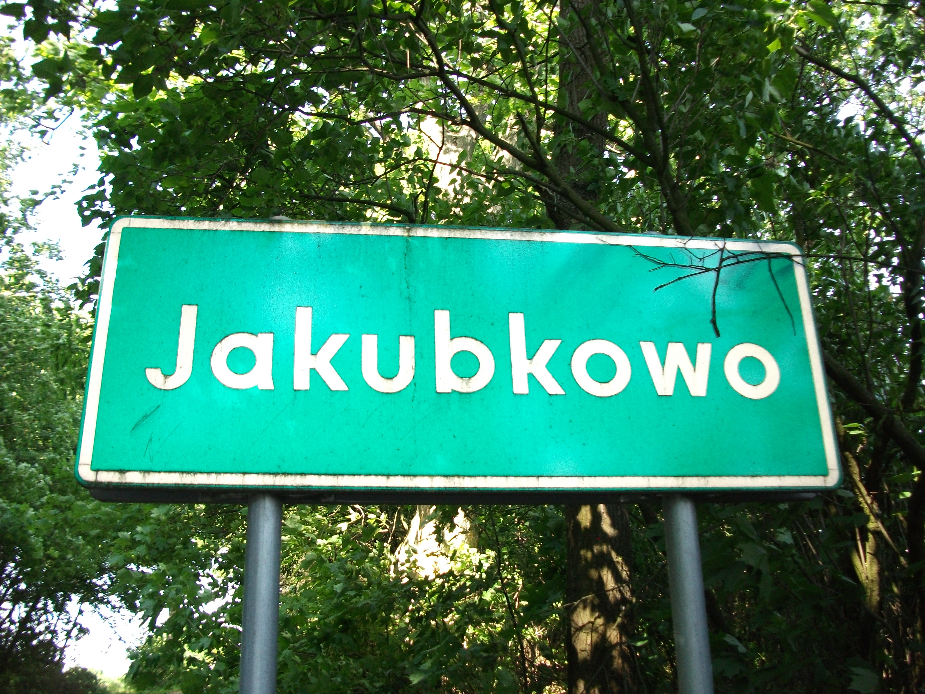 Jakubkowo; Łasin community